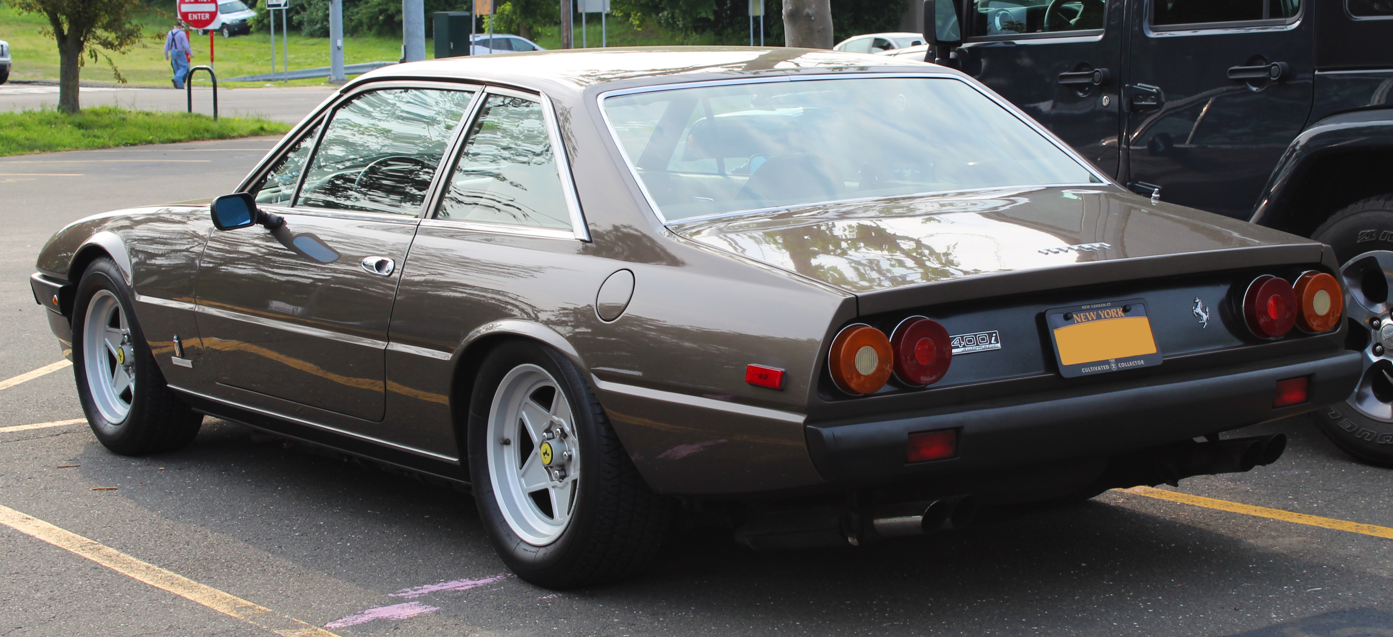 A 1983 Ferrari 400i photographed in Greenwich Concours d'Elégance Hagerty parking lot, Connecticut, USA